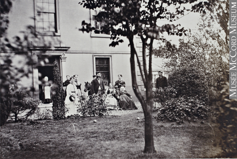 Photograph William W. Ogilvie and the Johnston family, Beauchamps House, Paisley, Scotland, 1868-69 1868-1869, 19th century Silver salts on paper mounted on card - Albumen process 13.4 x 19.9 cm Gift of Ms. Airlie Ogilvie M2010.89.1.340 © McCord Museum